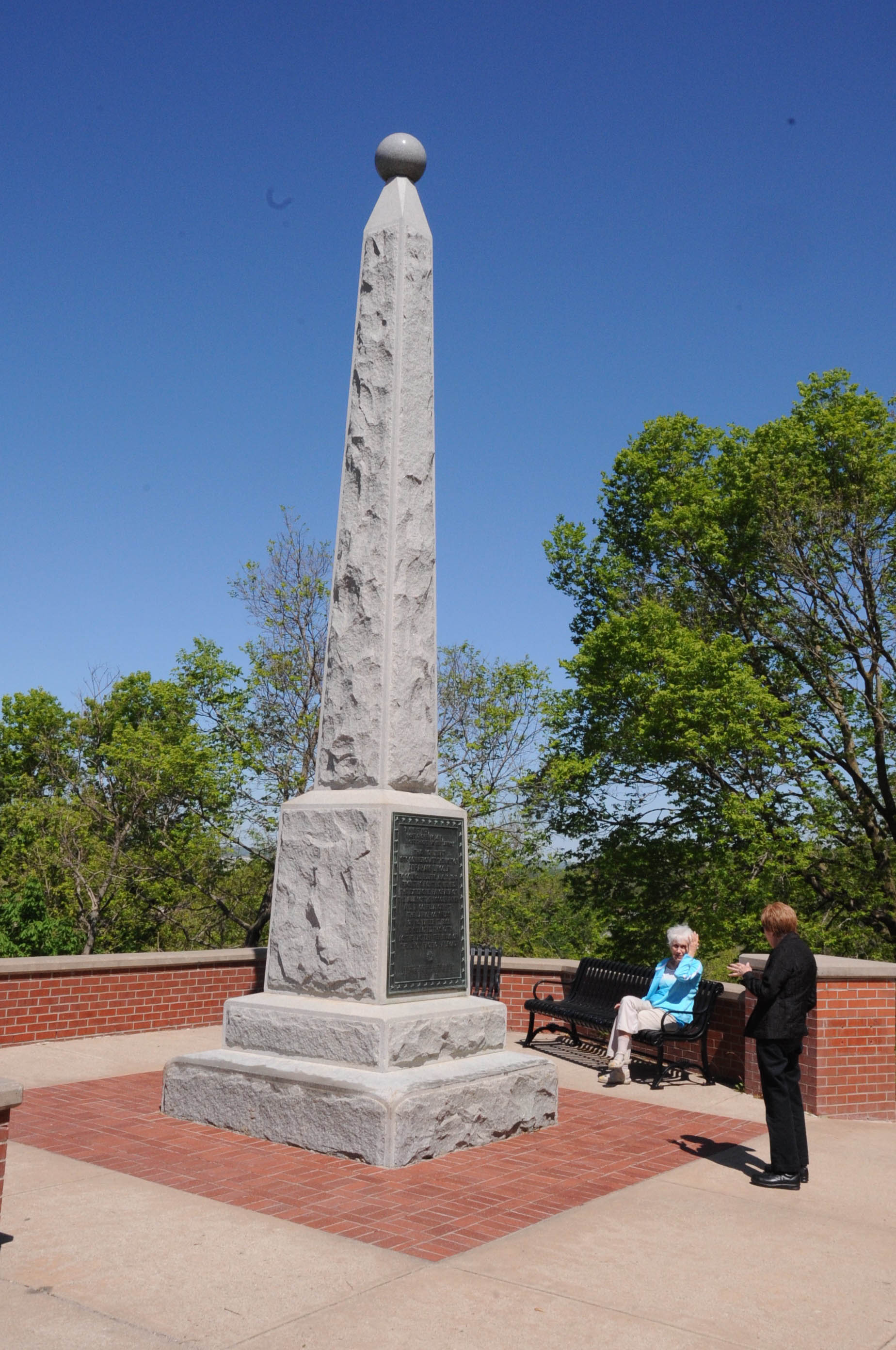 RESIDENTIAL DISTRICT PLUS A MAJOR CONTRIBUTING FAIRVIEW CEMETERY; LINCOLN MONUMENT (1911)